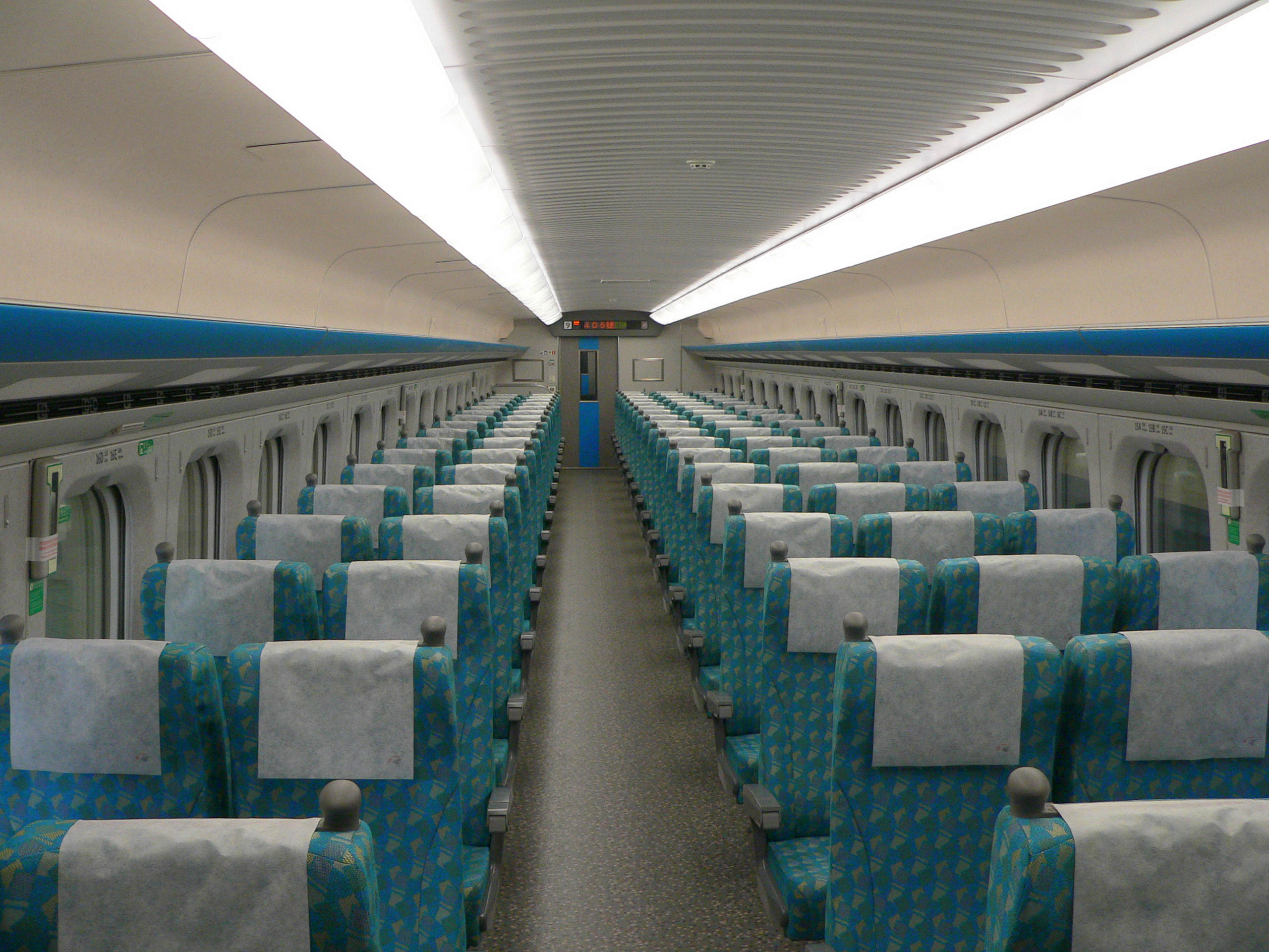 Taiwan High Speed Rail 700T Normal train Interior